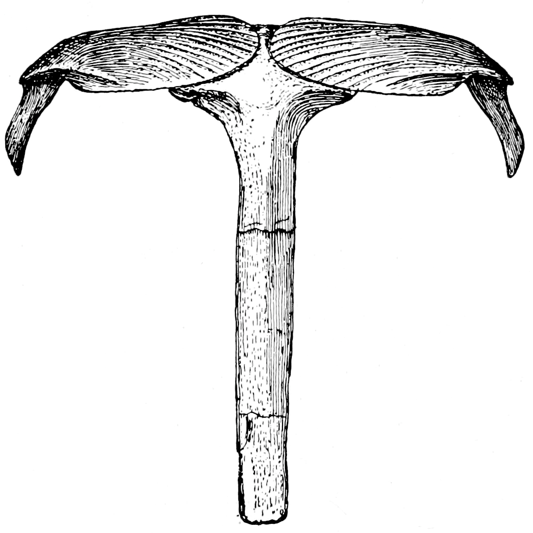 Illustration of Ophiacodon clavicles and interclavicle from The Osteology of the Reptiles (1925)